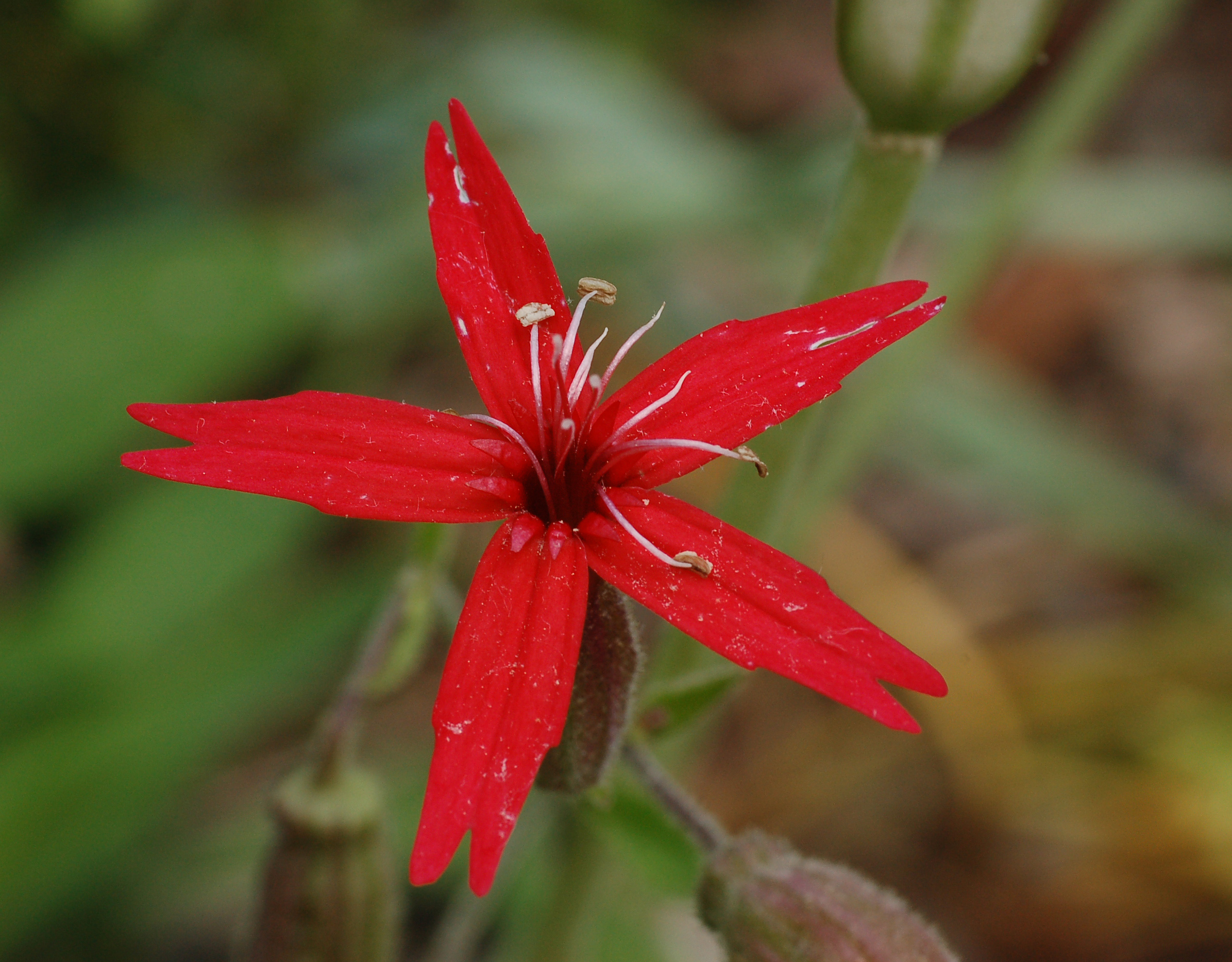 Picture of the flower of the Fire Pinken (Silene virginica en ). Photo taken in the Pond Garden Bed 2 at the Chanticleer Garden where it was species identified.